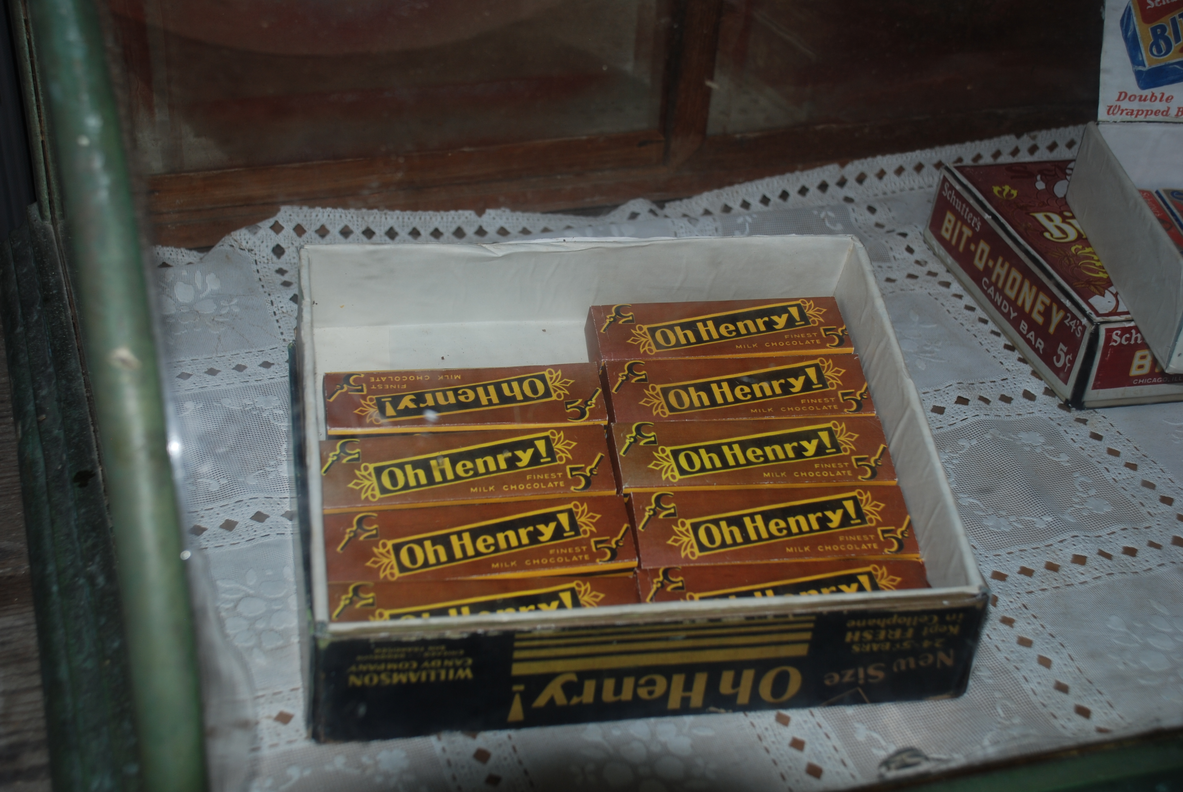 Portsmouth, North Carolina an abandoned village on North Core Banks: Post Office and General Store merchandize: Oh Henry Milk Chocolates